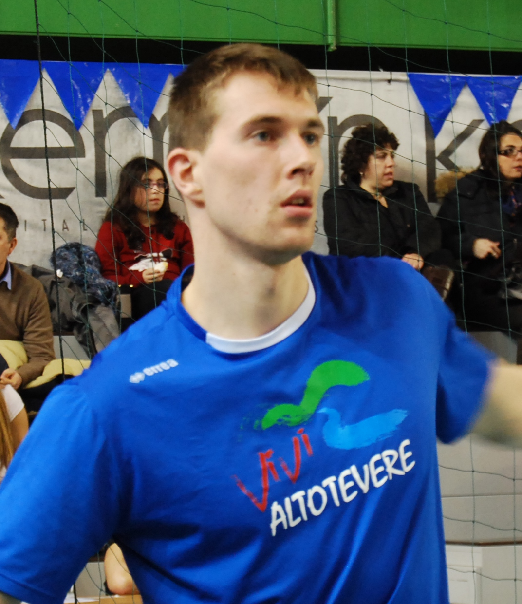 Belgian volleyballer Bram Van den Dries before the game Altotevere Volley vs Volley Top Latina, 2013, march 17th